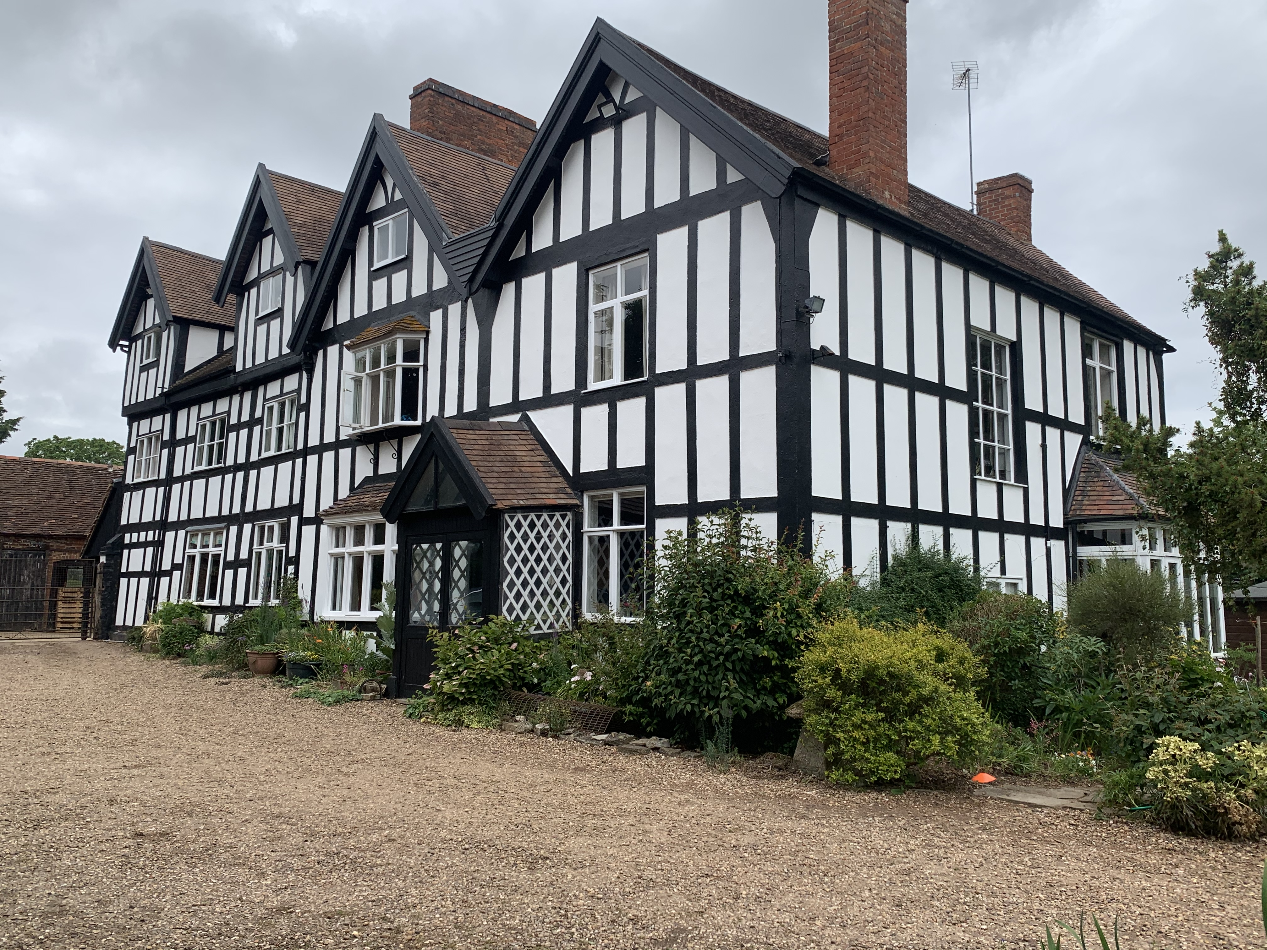 Bredicot Court Farmhouse is a Grade II-listed, built in the early 17th century. It has an H-shaped plan, and is timber-framed with brick infilling; there is an 18th-century brick wing.